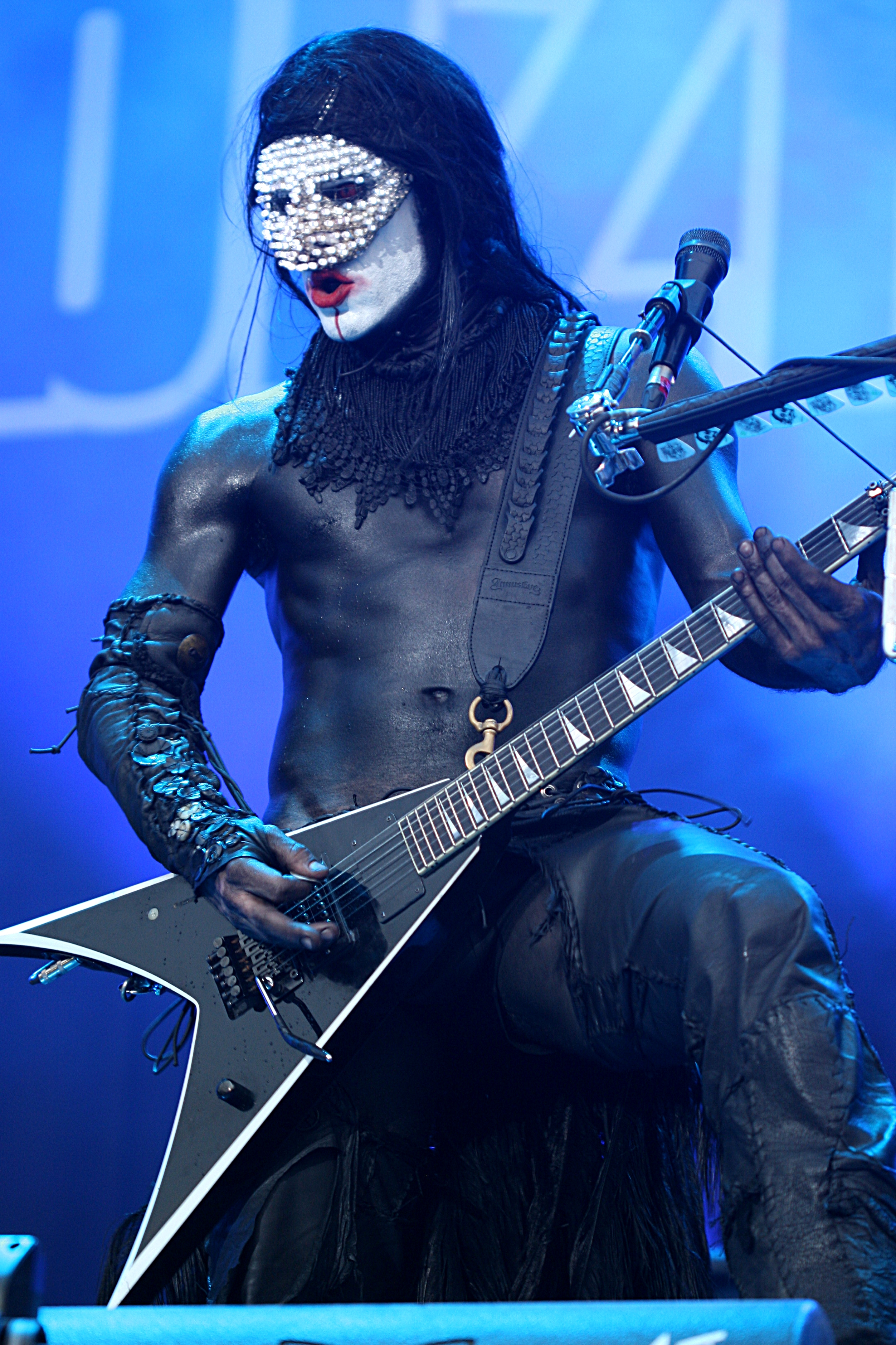 Wes Borland, guitarist of Limp Bizkit, on the Alterna Stage of Rock im Park-Festival 2013. Festivalsommer This photo was created with the support of donations to Wikimedia Deutschland in the context of the CPB project "Festival Summer".